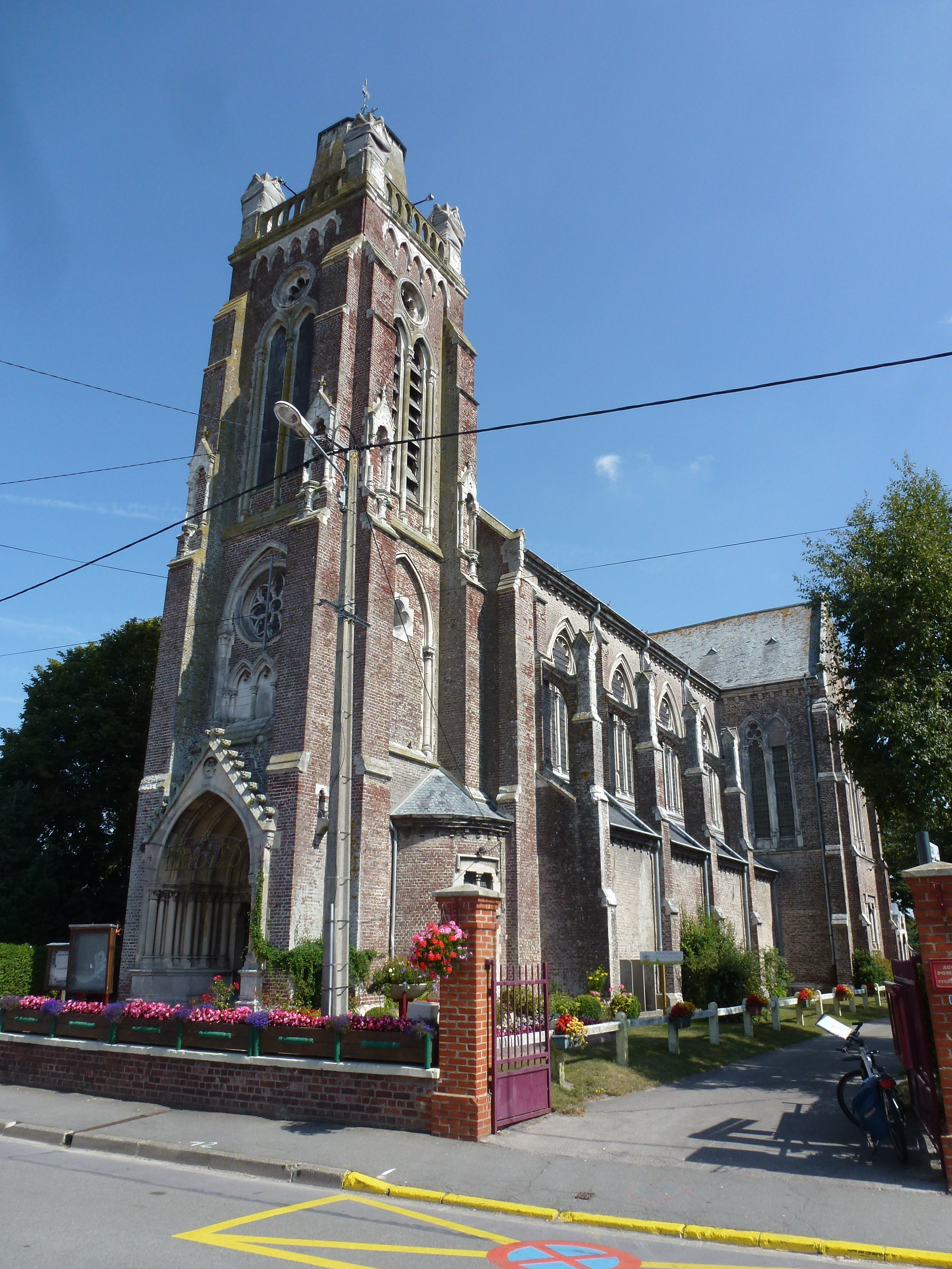 Vieille-Église (Pas-de-Calais) église Saint-Omer